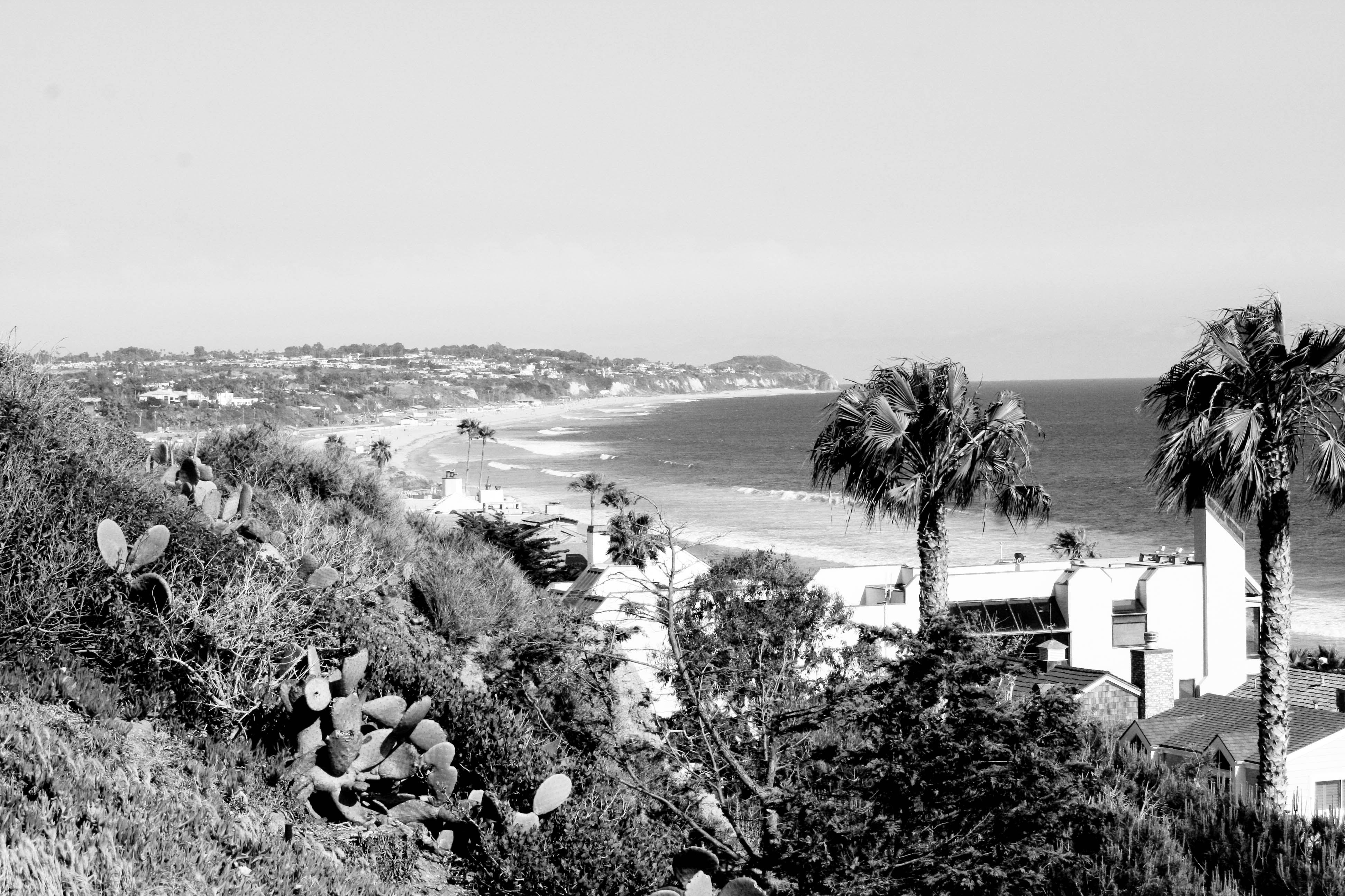 A black & white digital photo of the beach in Malibu